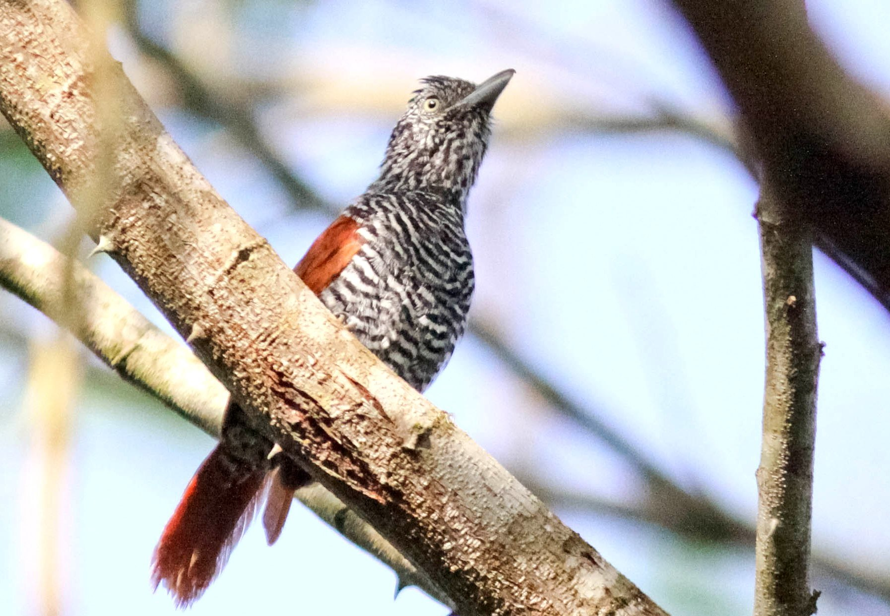 Chestnut-backed Antshrike, Perequê, RJ, Brazil.